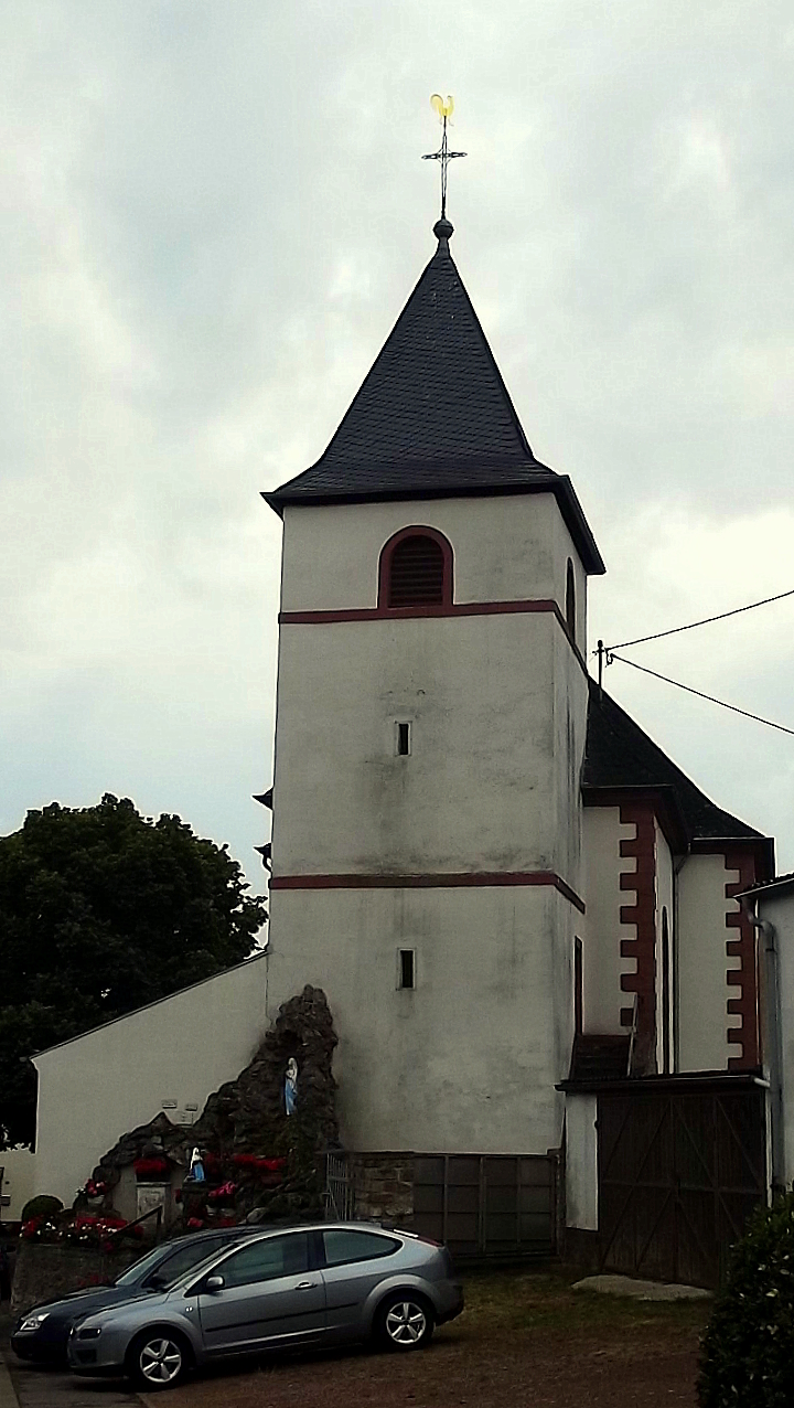 Exterior of the roman catholic church in Bedersdorf, Saarland, Deutschland